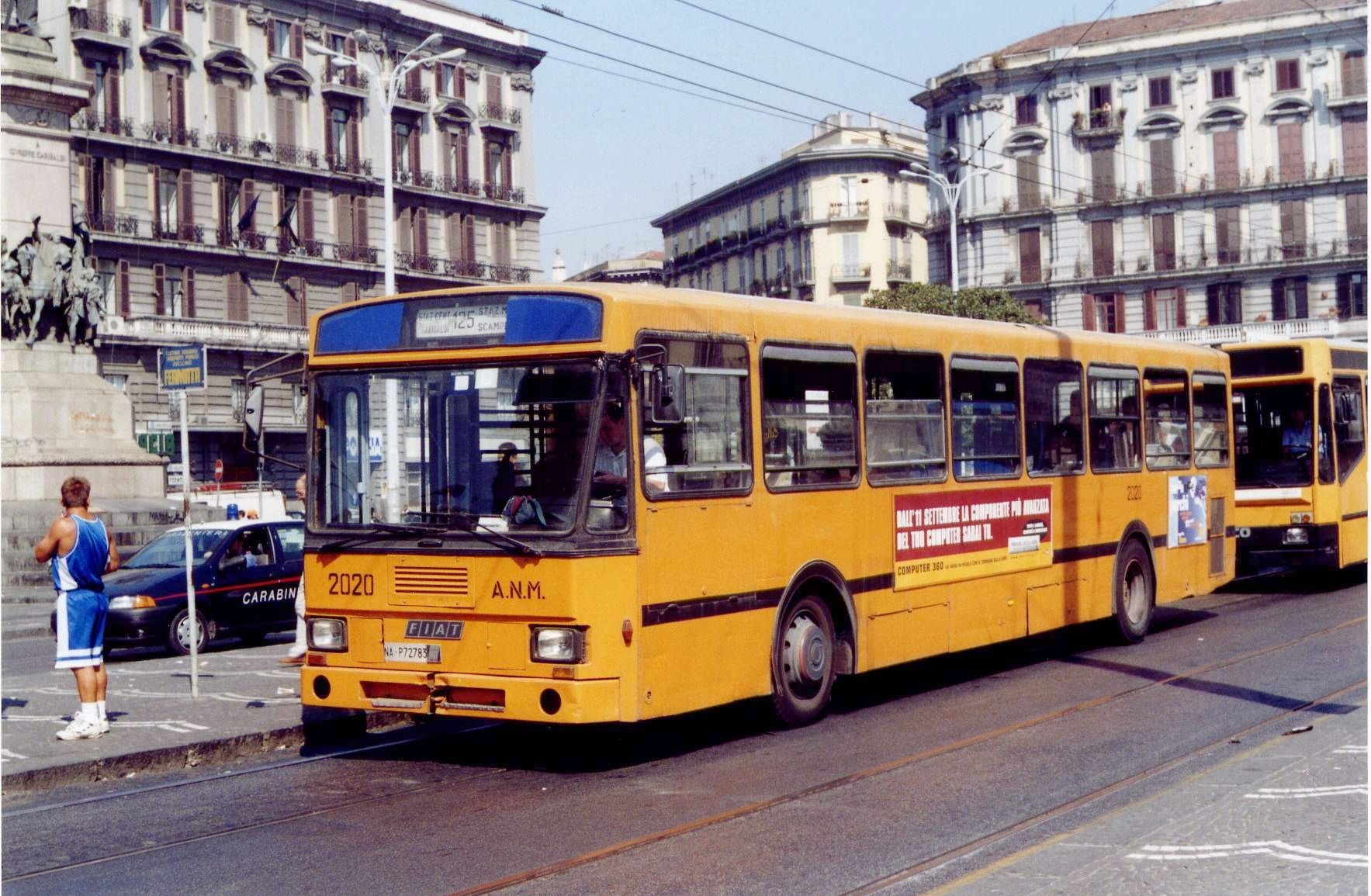 Fiat 470.12.20 Fiat 2020 in Napoli